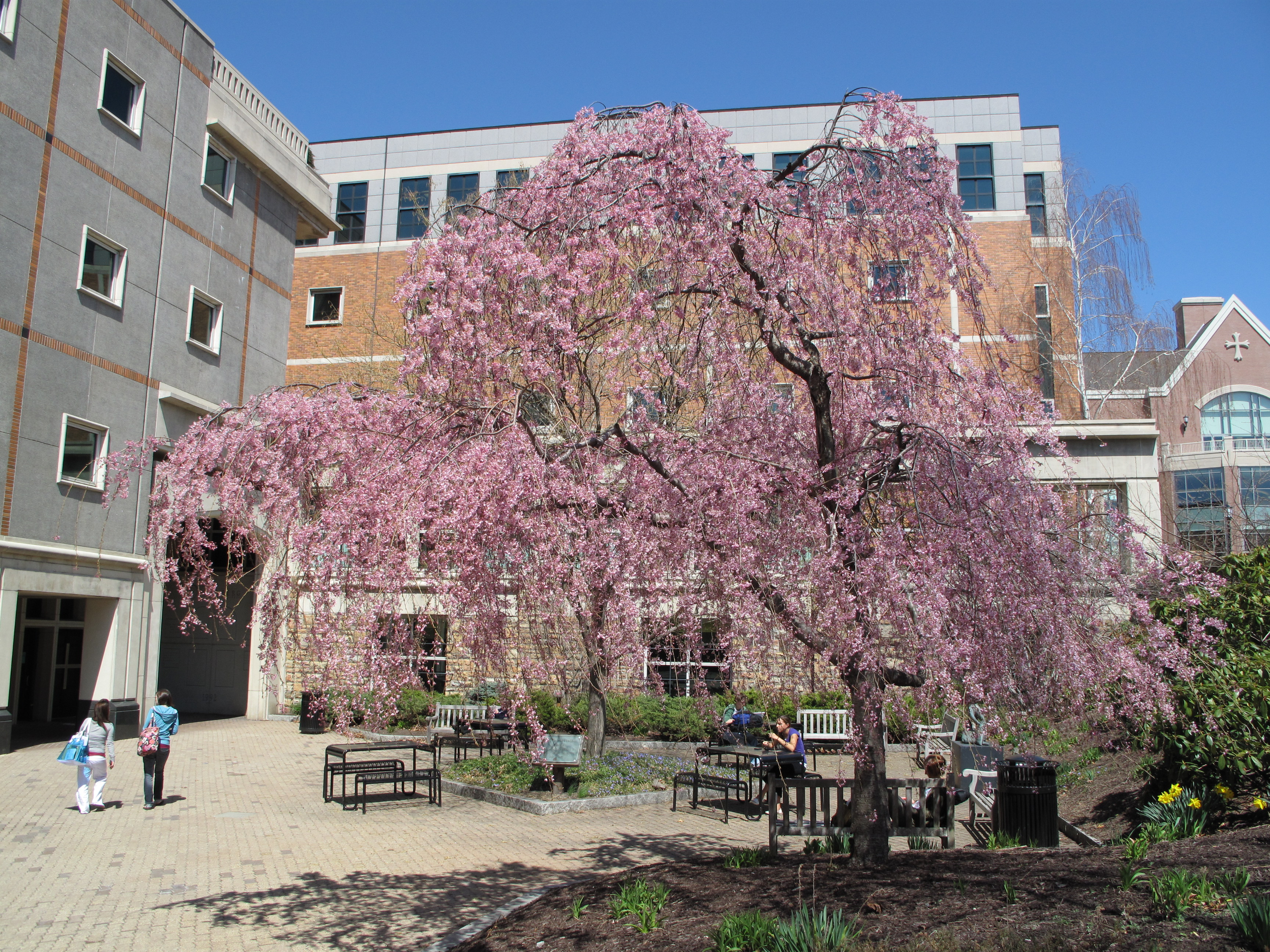 Cherry blossoms in front of Weinberg Memorial Library, University of Scranton, at Scranton, Pennsylvania, United States.